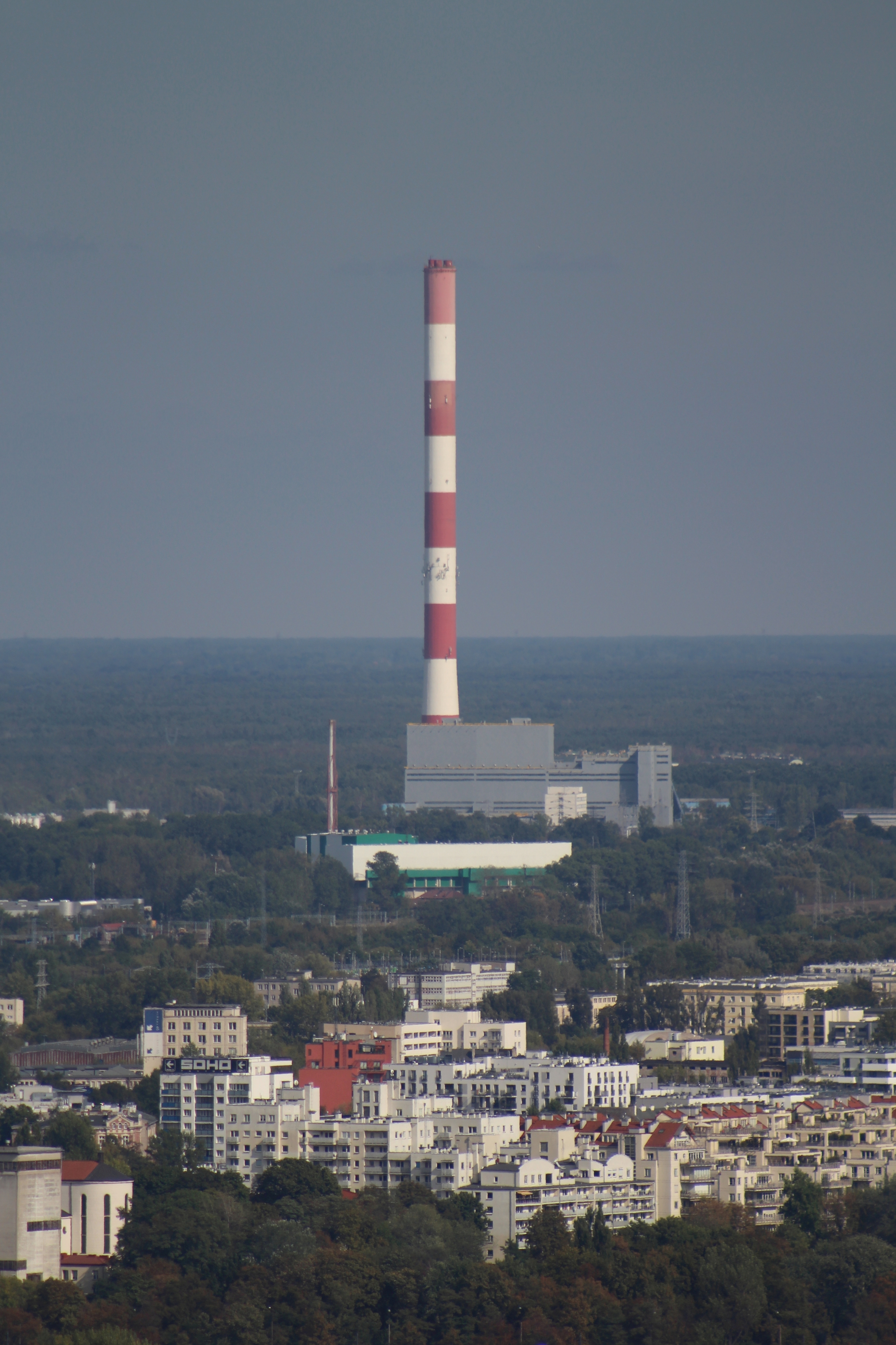 Kawecyn Cogeneration Plant, photographed from the observation deck of the Palace of Science and Culture